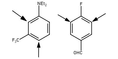 When different groups are attached to benzene, the 3rd substituent depends for the o/p director.